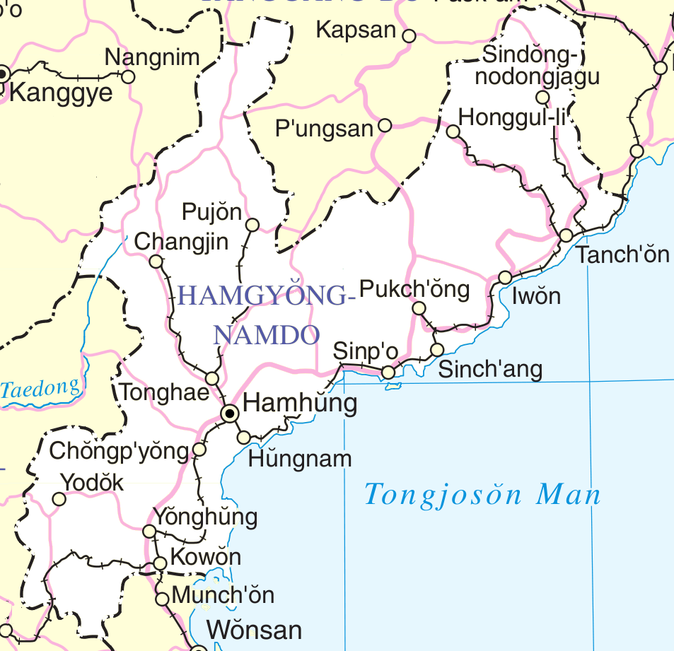 Map of Hamgyong-Namdo, cropped from Un-north-korea.png